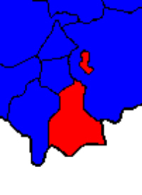 Better vrsion of map, showing exclave